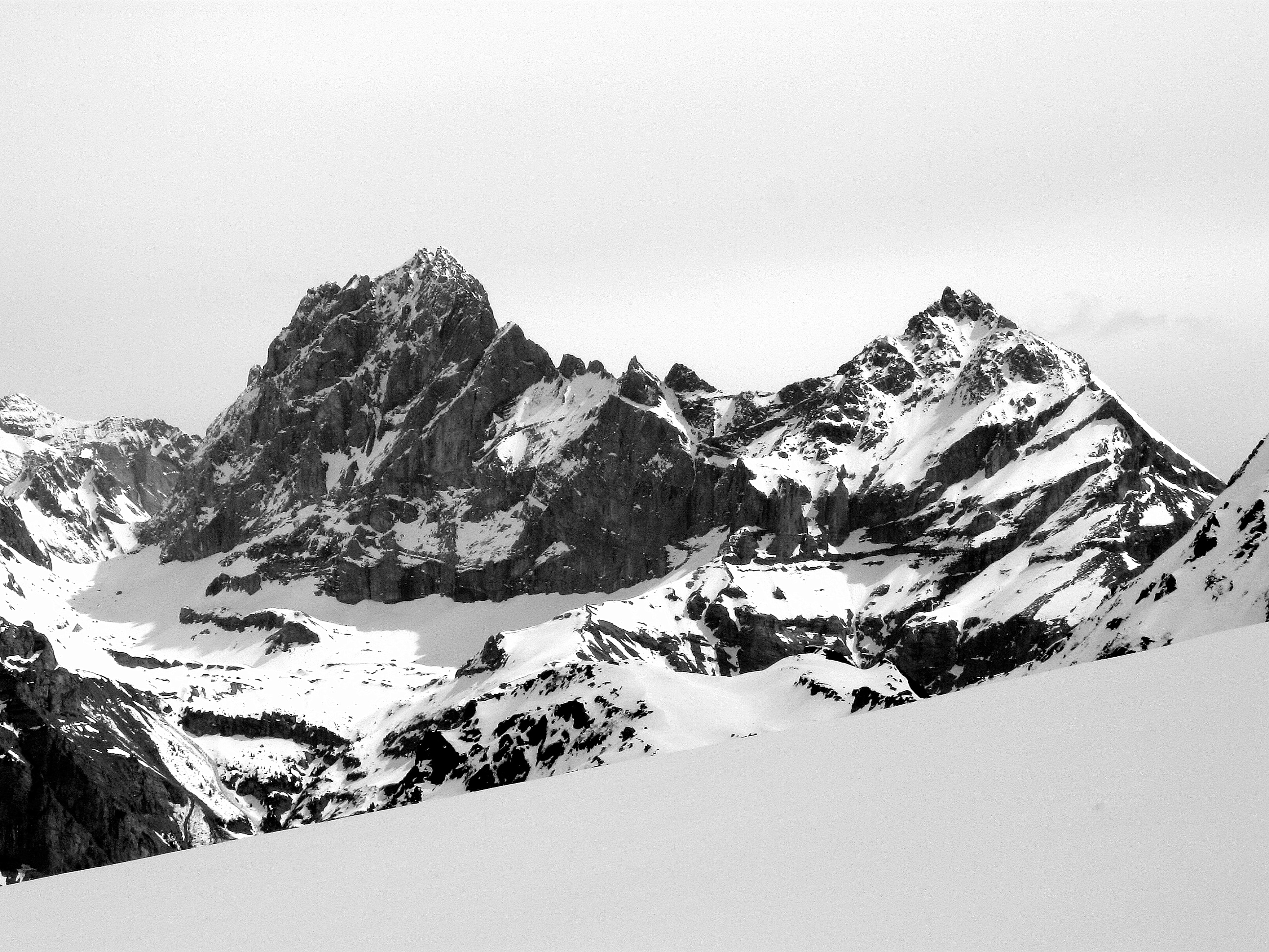 The Gross Windgällen (left) and the Chli Windgällen (right) from Kröntenhütte. Note: the Gross Ruchen is not visible on the photo